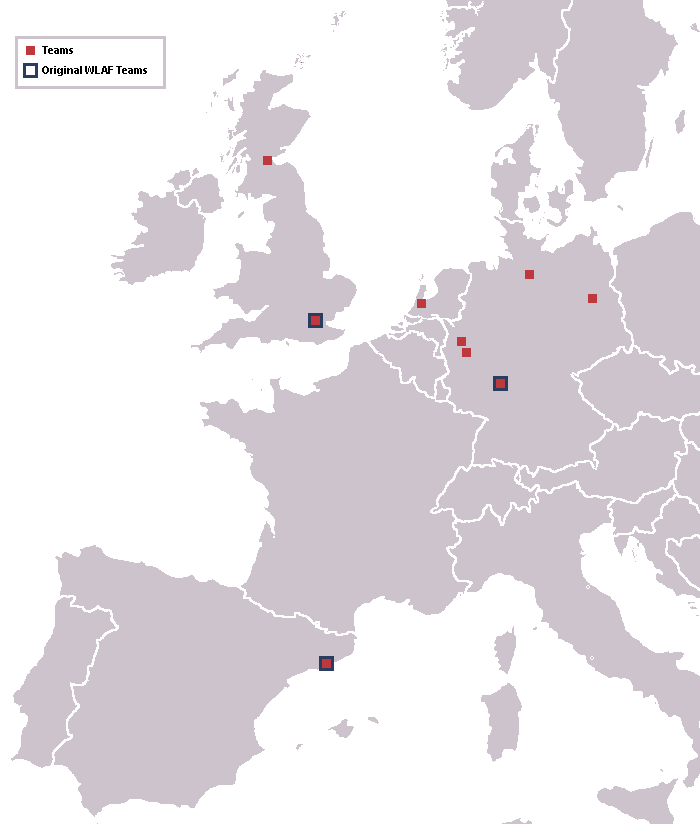 Locations of NFL Europa Teams: Amsterdam Admirals (Amsterdam, The Netherlands); Berlin Thunder (Berlin, Germany); Cologne Centurions (Cologne, Germany); Frankfurt Galaxy (Frankfurt, Germany); Hamburg Sea Devils (Hamburg, Germany); Rhein Fire (Düsseldorf, Germany)